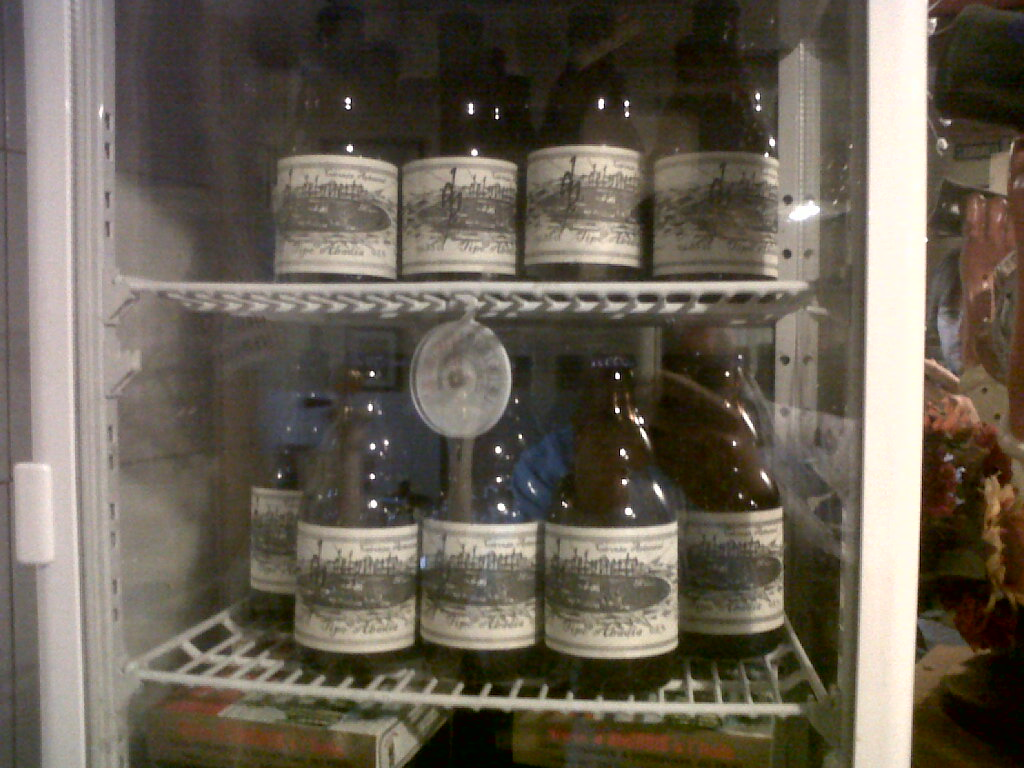 Delpuerto beer bottles firdge